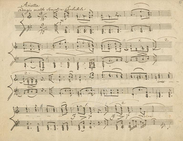 Page 15 (first autograph copy) of Ludwig van Beethoven's Piano Sonata No. 32, Opus 111